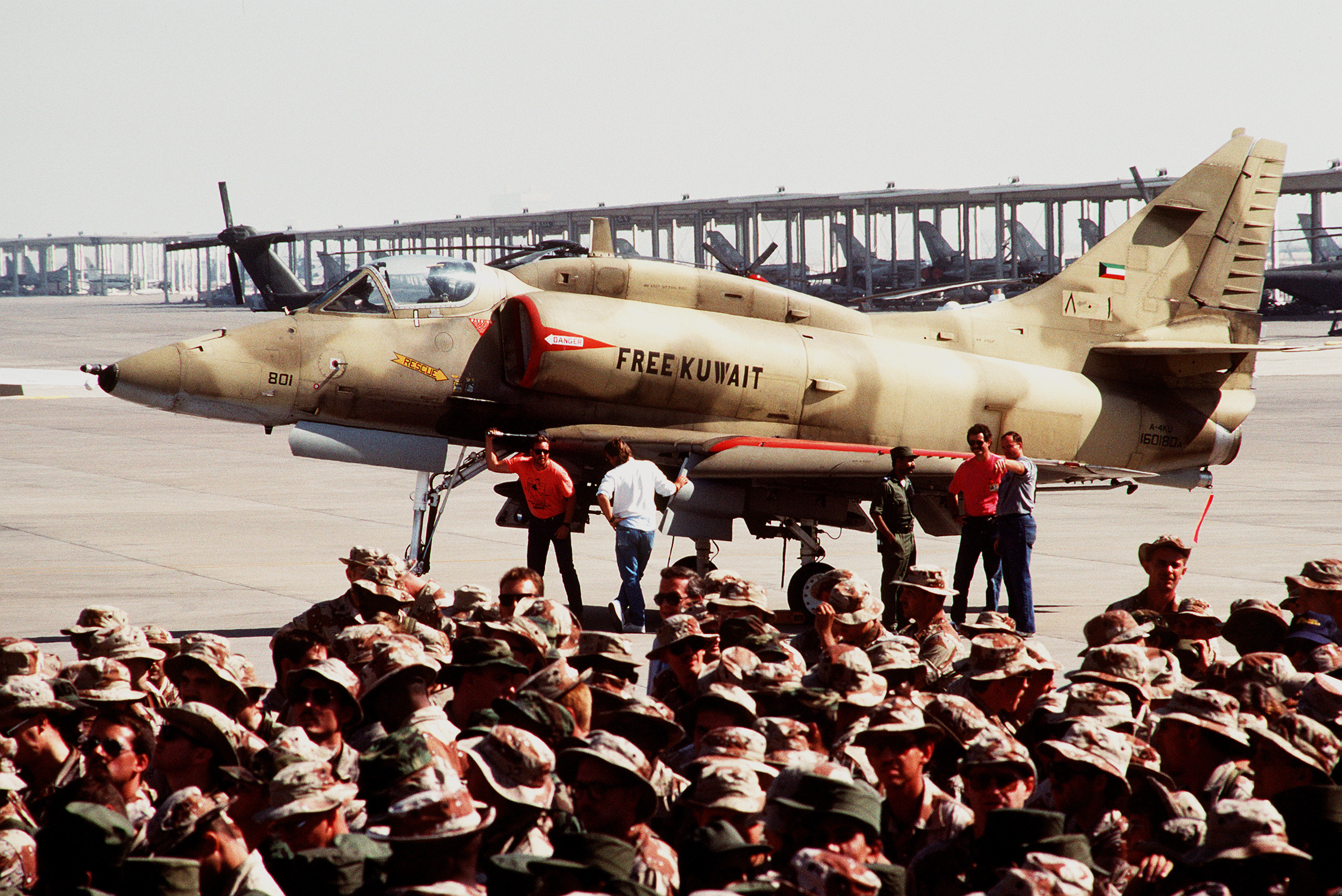 A Kuwaiti A-4KU Skyhawk aircraft sits parked on the fringes of a crowd that has gathered to listen to a speech by President George Bush. The president is paying Thanksgiving Day visits to U.S. troops who are in Saudi Arabia for Operation Desert Shield.